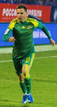 Gheorghe Bucur